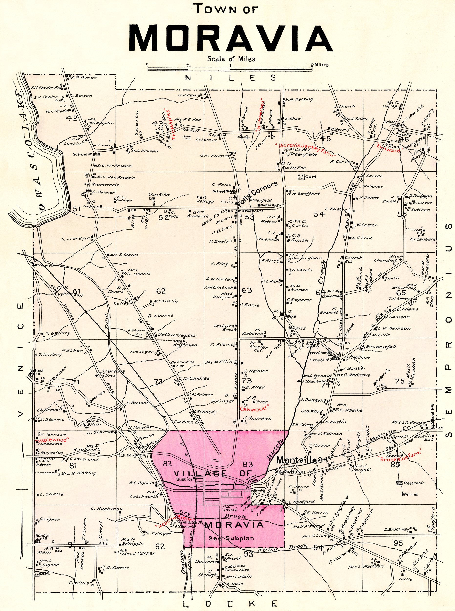 1904 map (plan) of the Town of Moravia, New York, showing the Village of Moravia